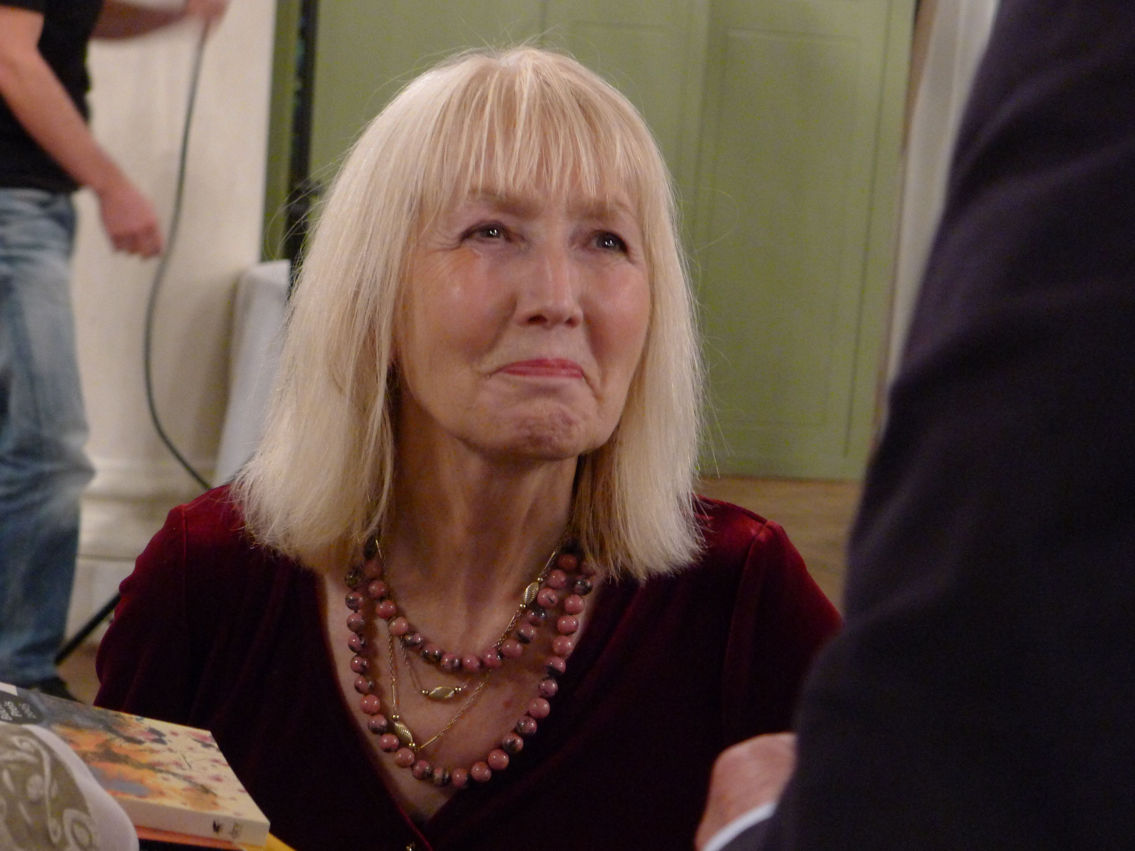 Brigitte Kronauer is signing her books after having got the Bavarian prize for literature (Jean-Paul-award)